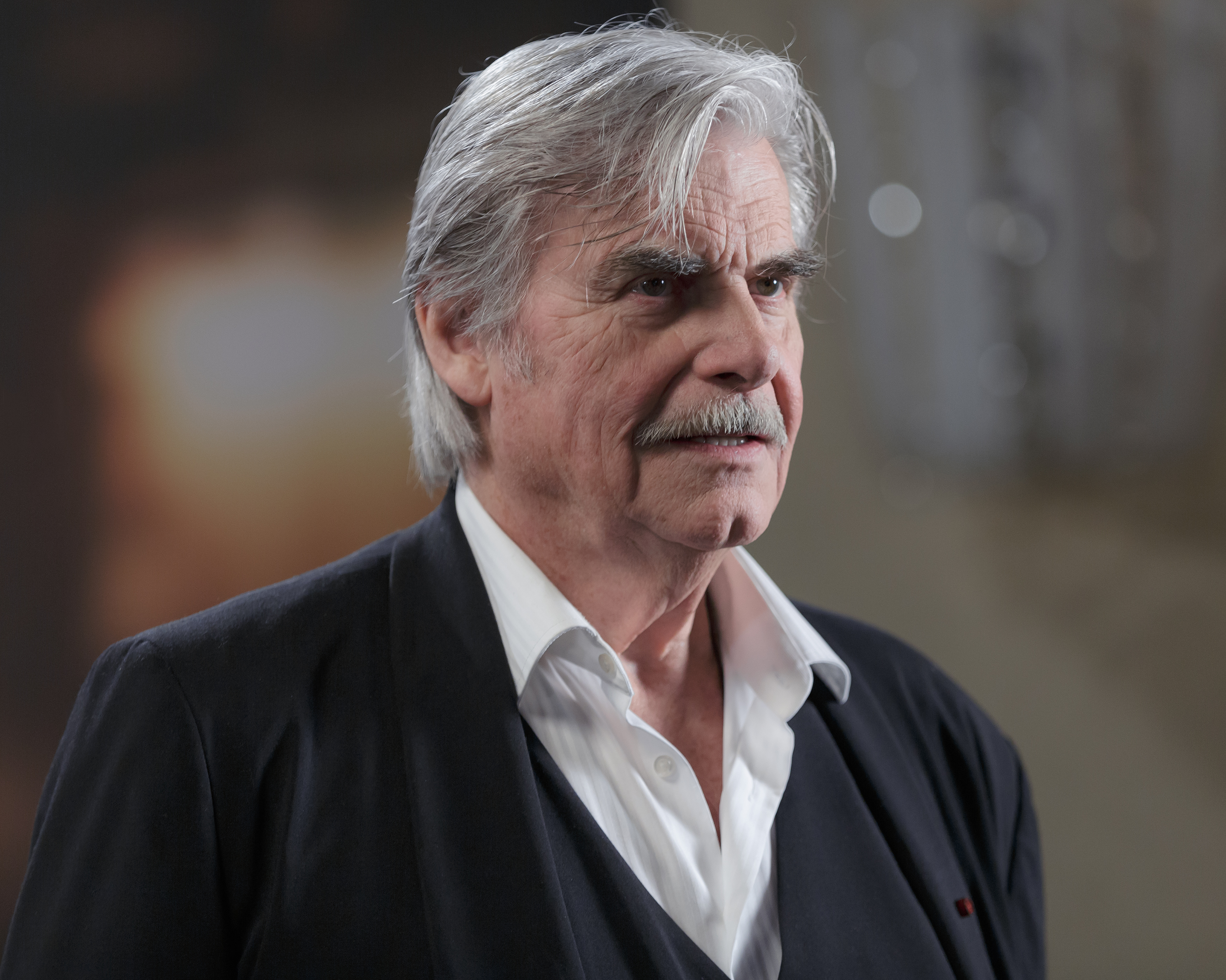 Peter Simonischek at the Austrian Film Awards 2017 (Rathaus, Vienna,Austria).